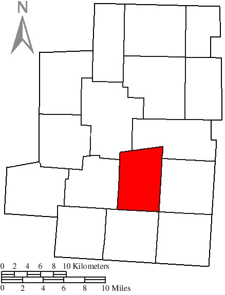 Originally created by the US Census. Modified by myself to highlight the township.